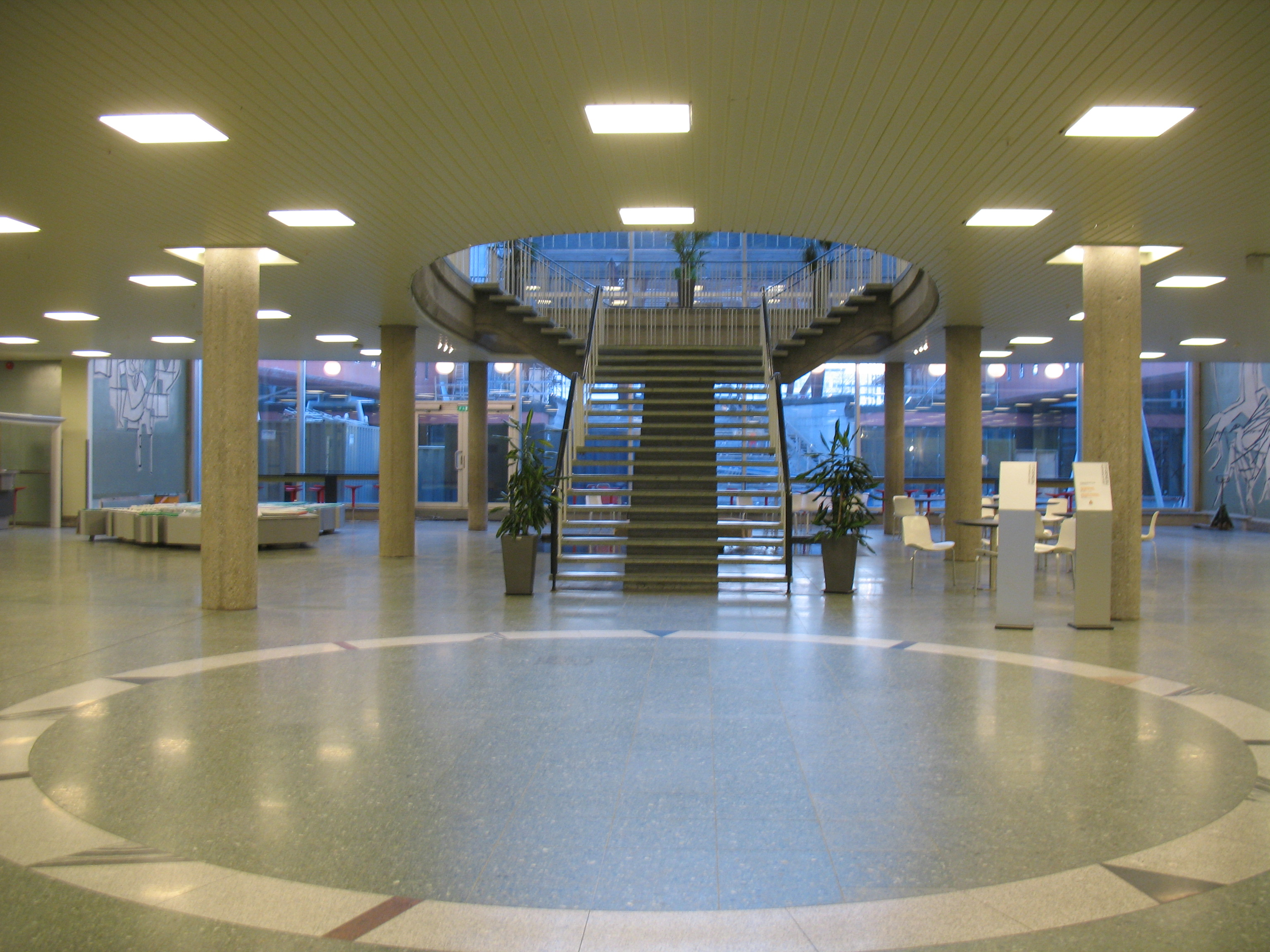 The stairs that meets people entering IT Fornebu. These were also used at the airport.